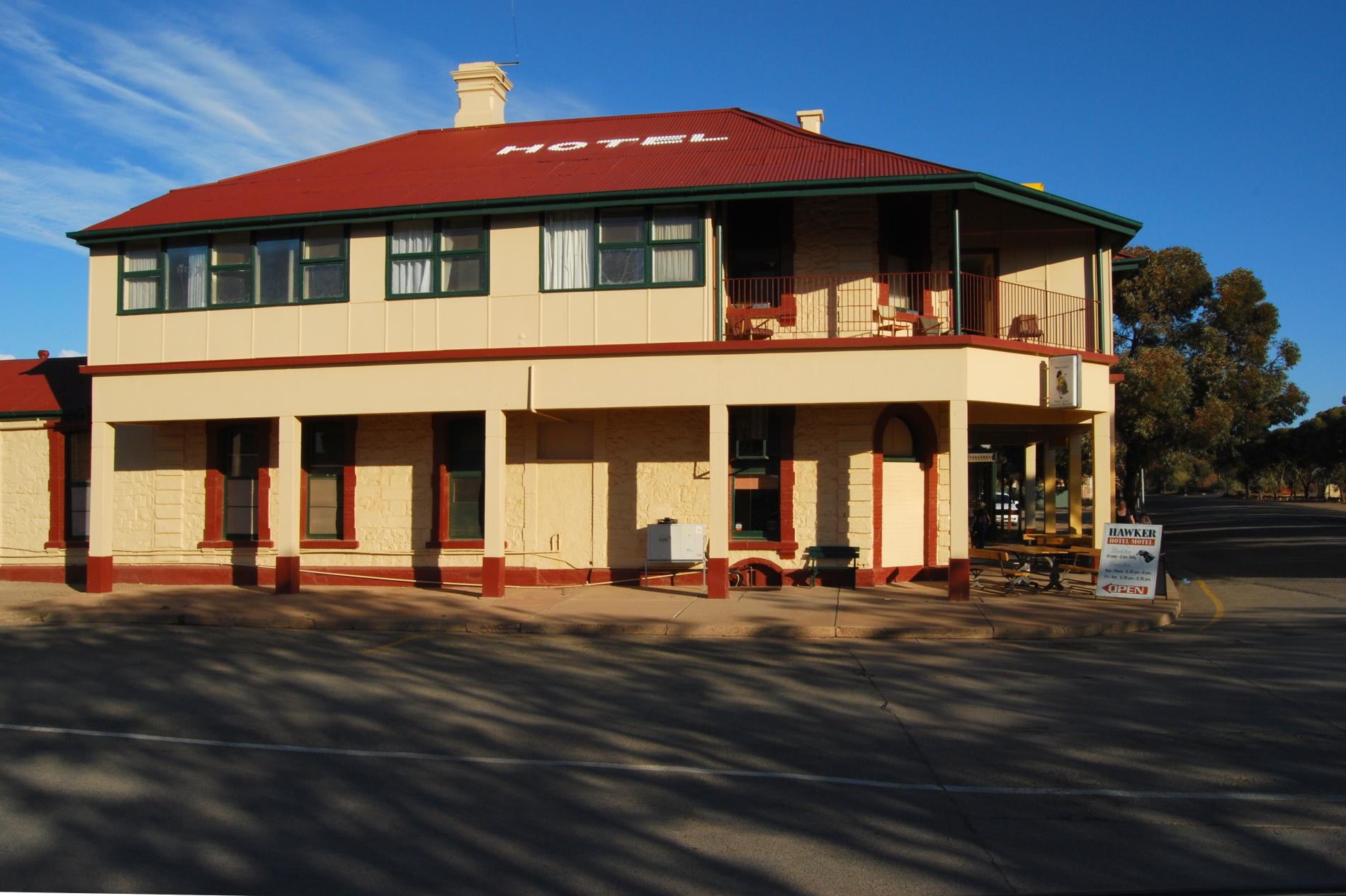 Hawker Hotel-Motel in Hawker, South Australia. 60km south of the Flinders Ranges National Park